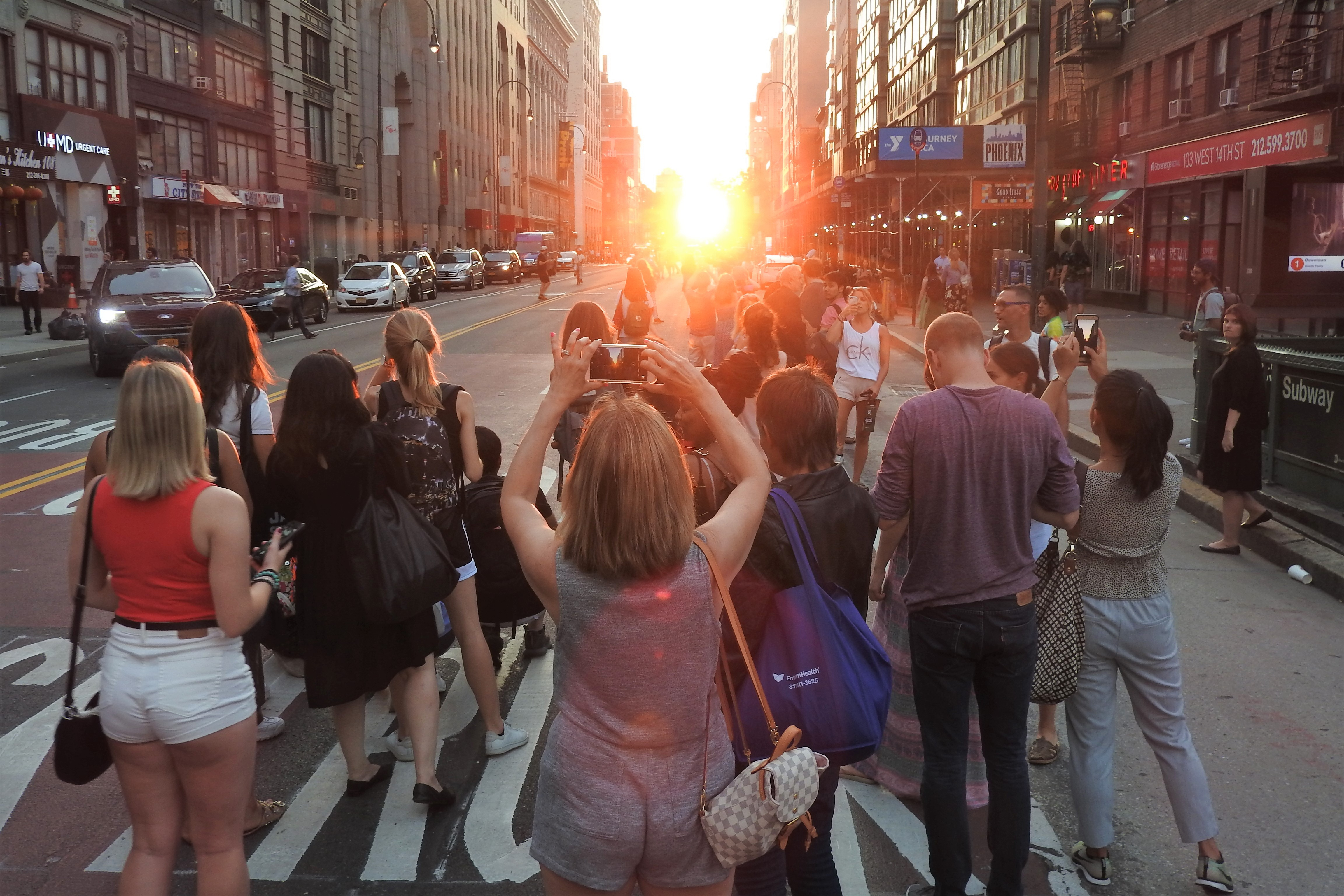 Looking west at eager observers